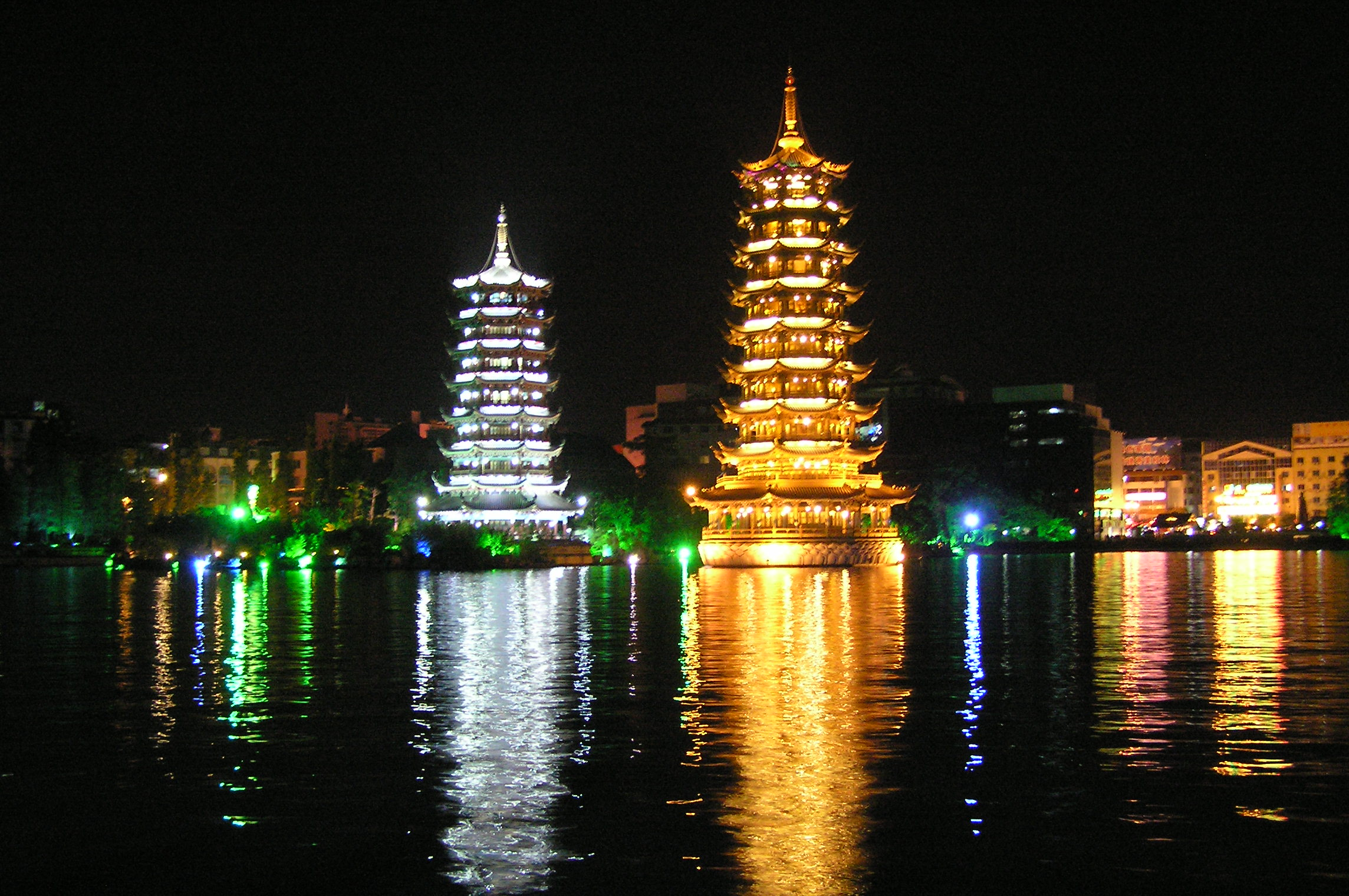 Image in Guilin at the Lijiang River (Guangxi, China)